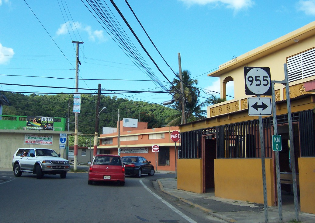 The beginning of Puerto Rico Highway 191 — in Palmer-PR, at PR-955 (Calle Principal) (facing north toward Calle Triunfo).